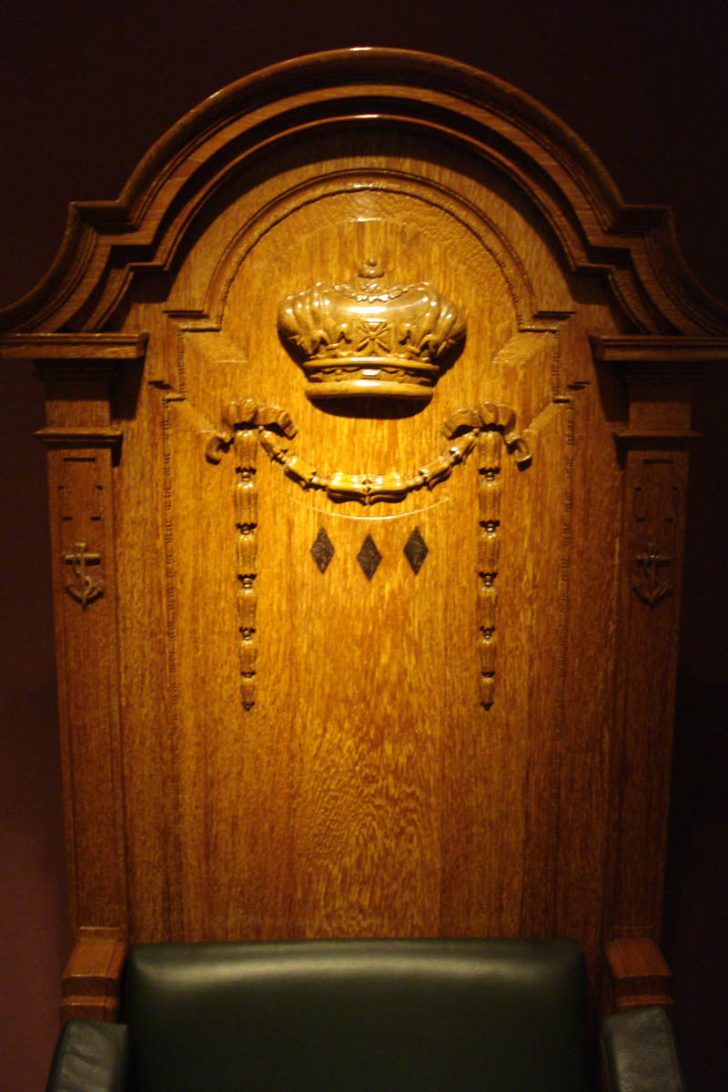 LEGCO Chairman's seat before 1997